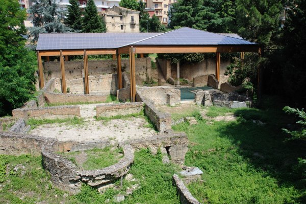 Chieti's roman thermae of the Second Century AD